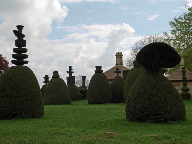 Fantastic topiary of the Clipsham Yew Tree Avenue. Yew tree trimming was started by Amos Alexander in 1870 whilst living at the gatehouse (in backround). The Forestry commission took over the avenue in 1955 and has continued with the tradition. Located in the Clipsham Hall Park, near Clipsham, England. The topiary avenue (landscape allée) stretches for 500 metres (1,600 ft), with ~150 shaped yew trees—Taxus baccata topiary lining the former carriage drive to Clipsham Hall.